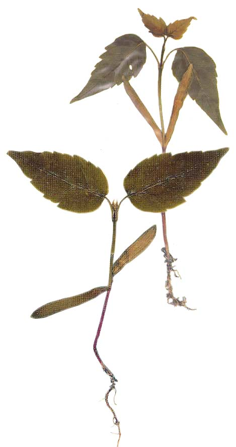 Acer negundo seedlings